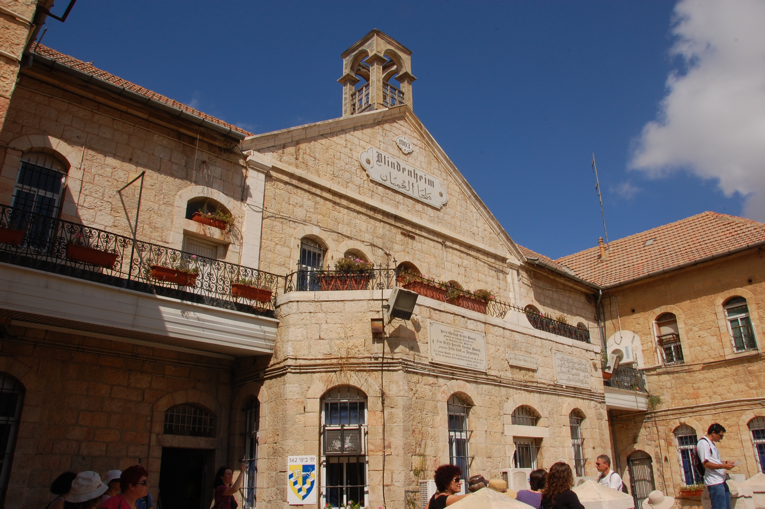 "Blindenheim", the school for the blind at the Schneller Orphanage in Jerusalem, erected in 1903.